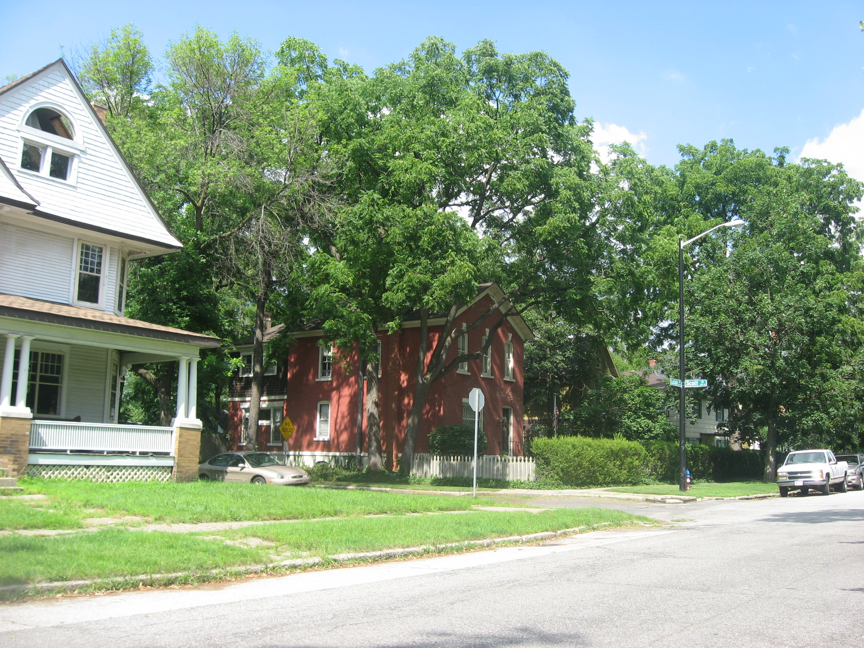 Houses on the northern side of LaSalle Avenue at the Scott Street intersection in South Bend, Indiana, United States. This block is part of the West LaSalle Avenue Historic District, a historic district that is listed on the National Register of Historic Places.